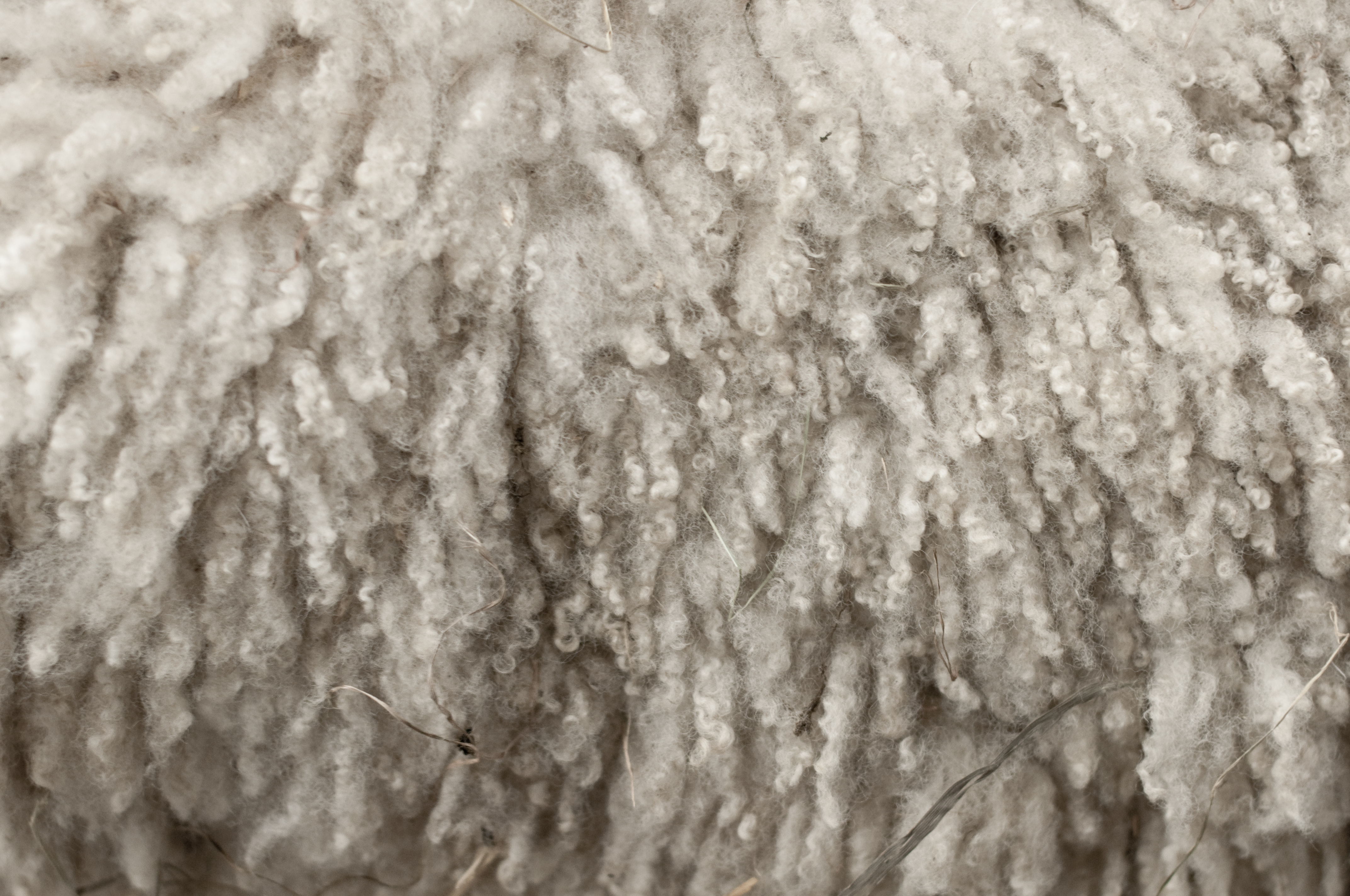 Sheeps Wool